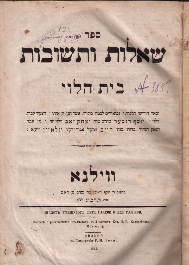 Bet Halevi Book 1863